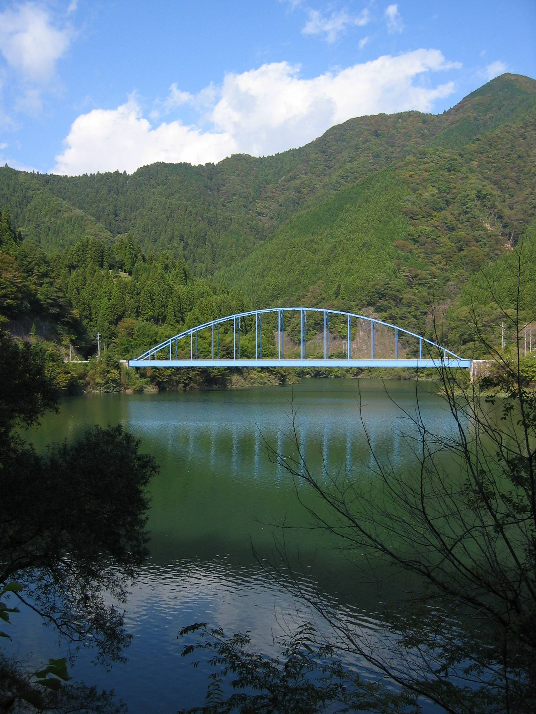 Toyone Bridge (Toyone ohashi) on the Aichi Prefectural Road Route 428 in Toyone Town